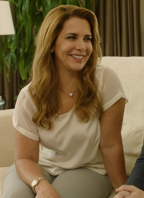 HRH Princess Haya Bint al Hussein of Jordan meets with Tracy Edwards MBE in Jordan, to discuss memories of HM King Hussein of Jordan